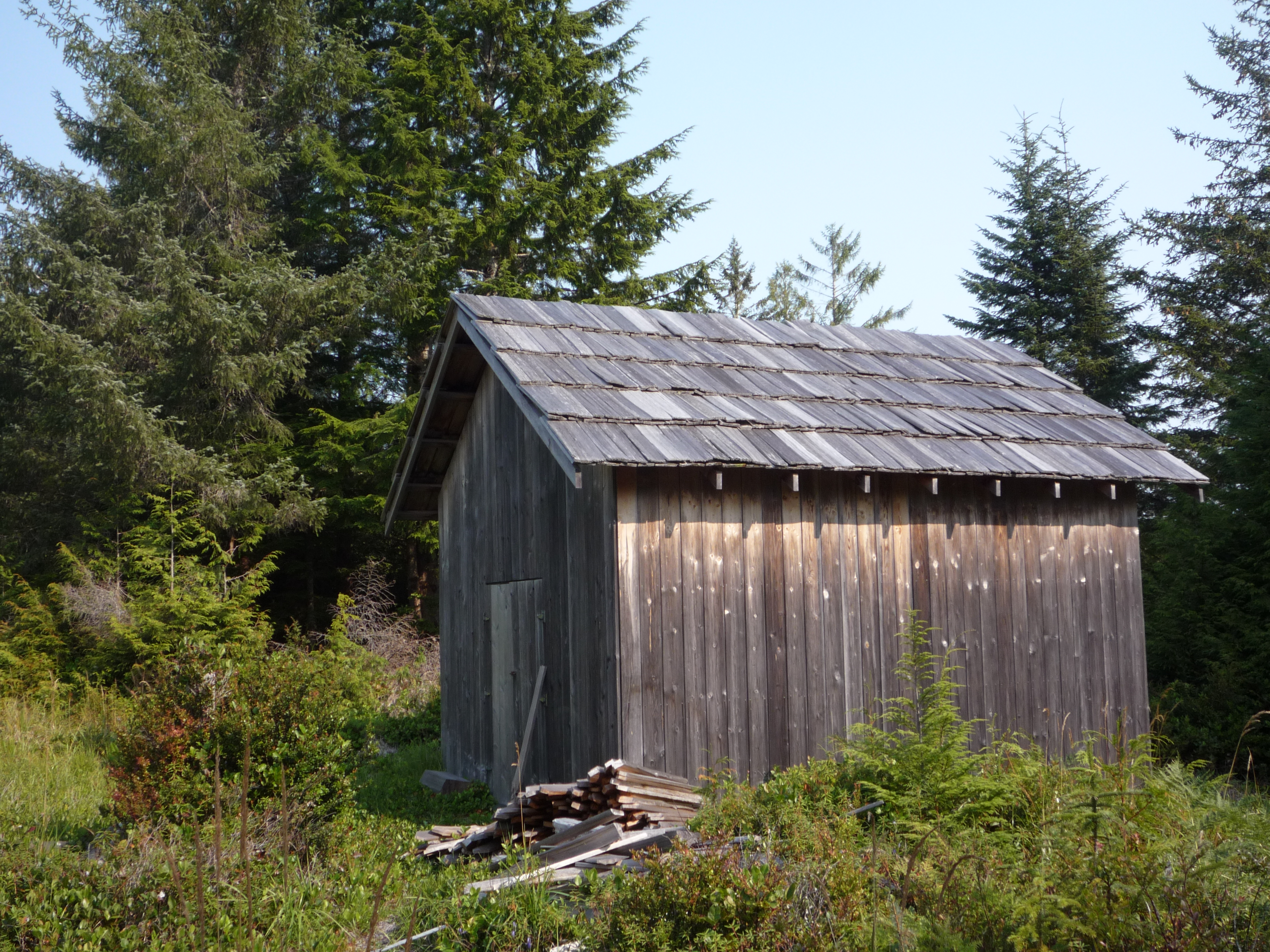 Peter Roose HomesteadThe barn is at the north end of the clearing.